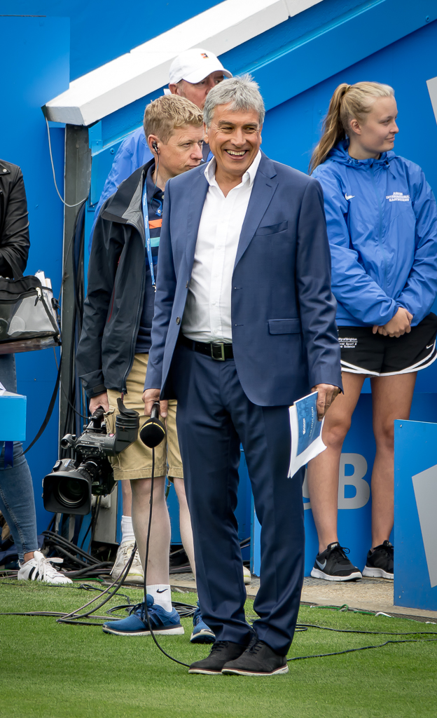 John Inverdale - Aegon Eastbourne